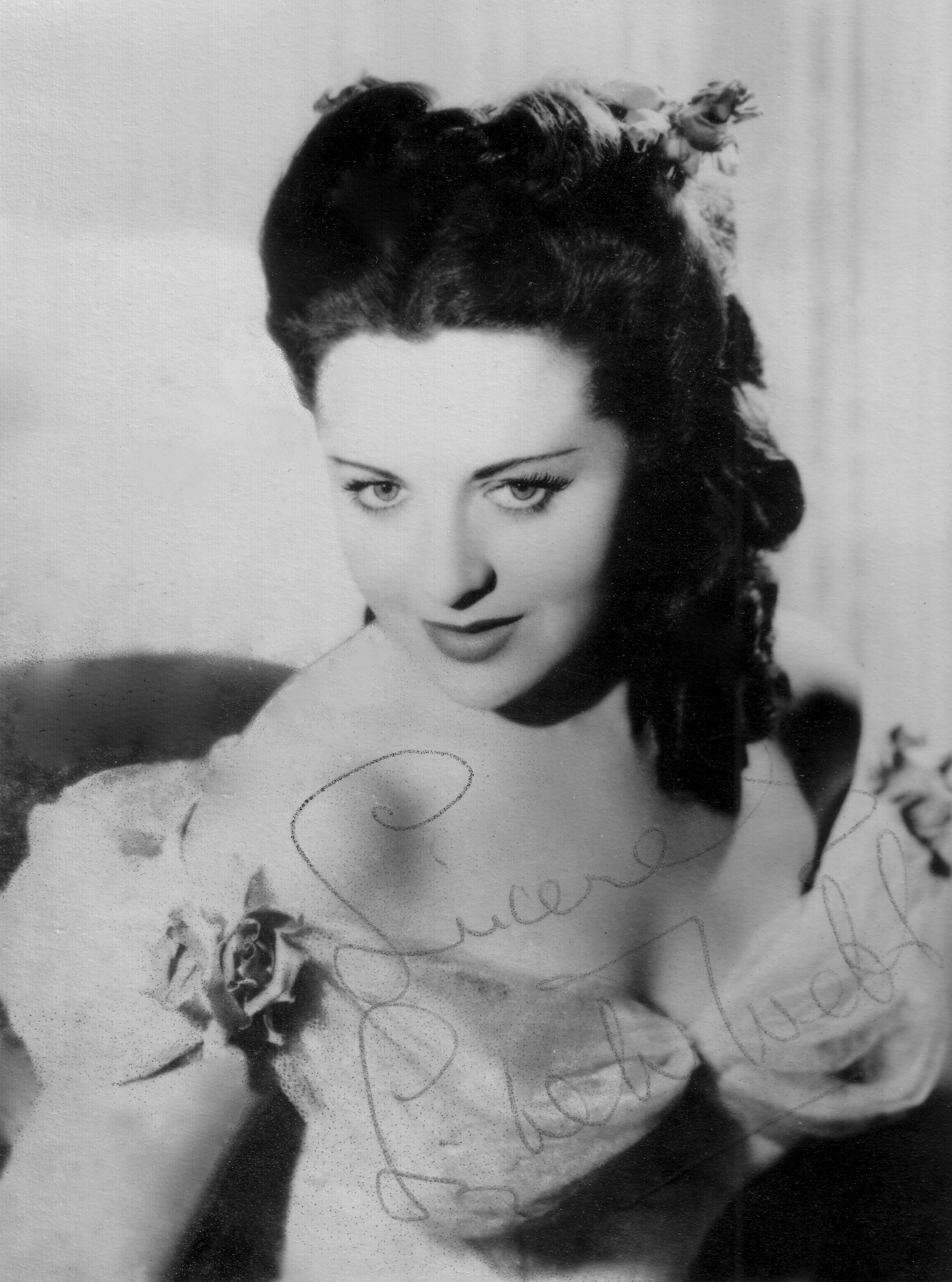 Lizbeth Webb in white ball gown from "Bless the Bride", 1947